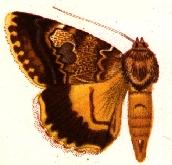 PLATE CXCIX.